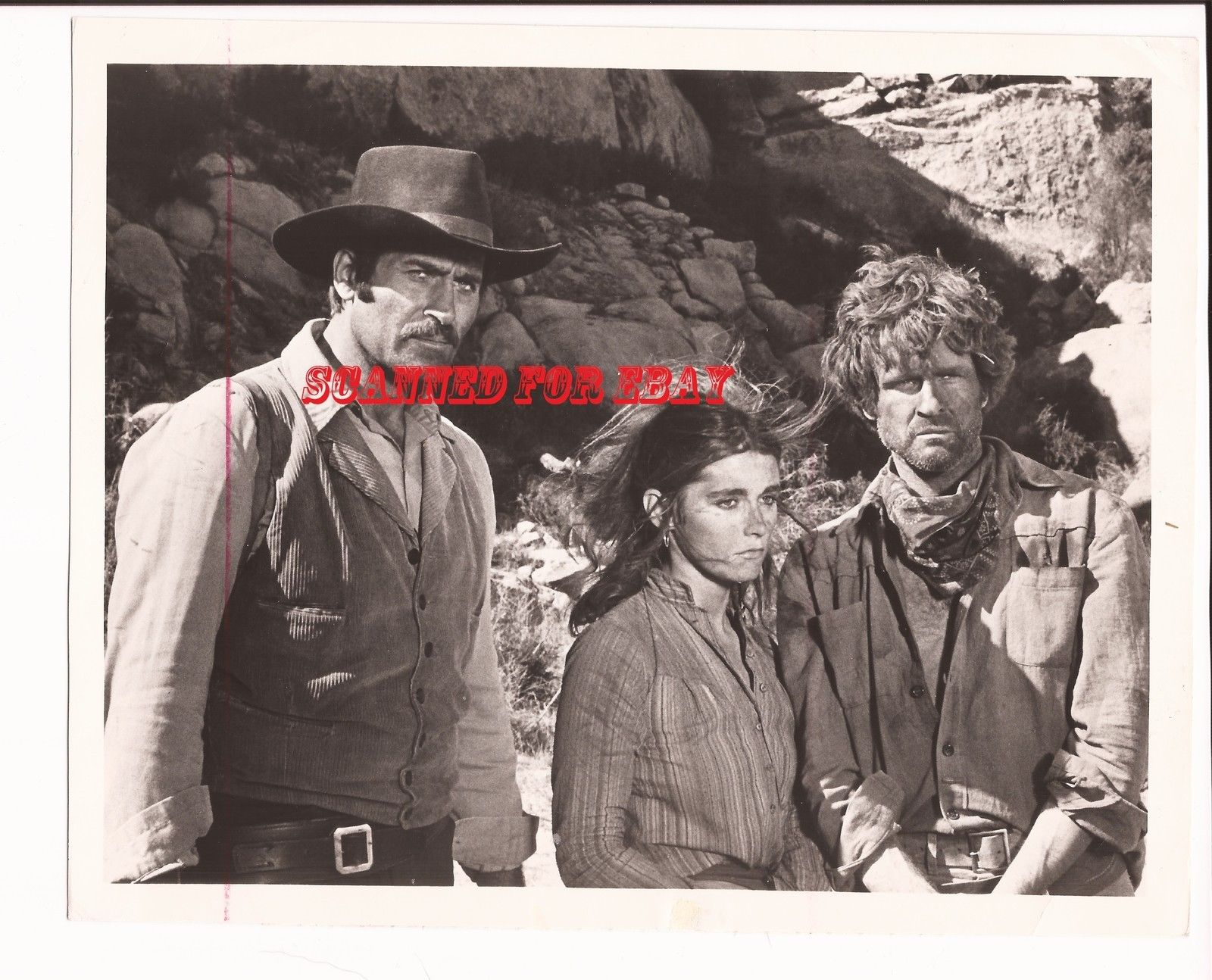 Clint Walker, Margot Kidder, and John Ericson in The Bounty Hunter